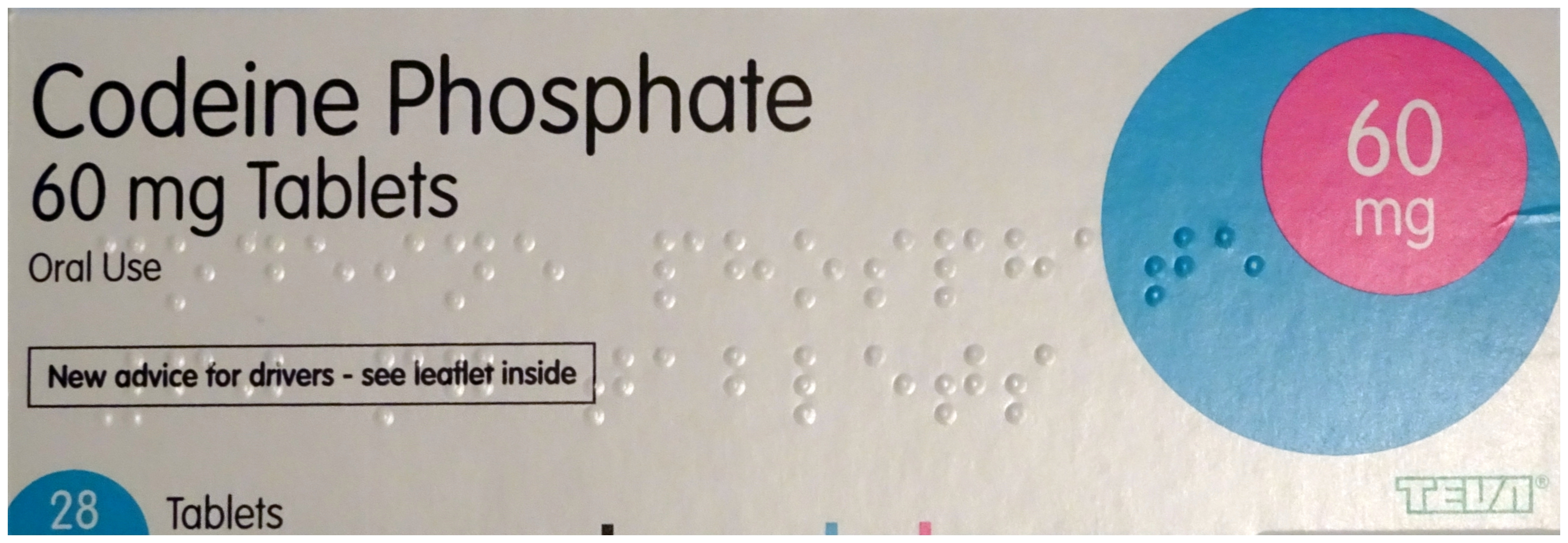 Package of Codeine Tablets by Teva Pharmaceutical Industries